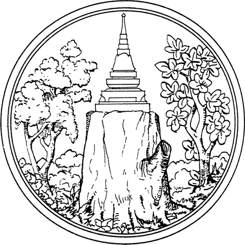 Provincial seal of Khon Kaen province.